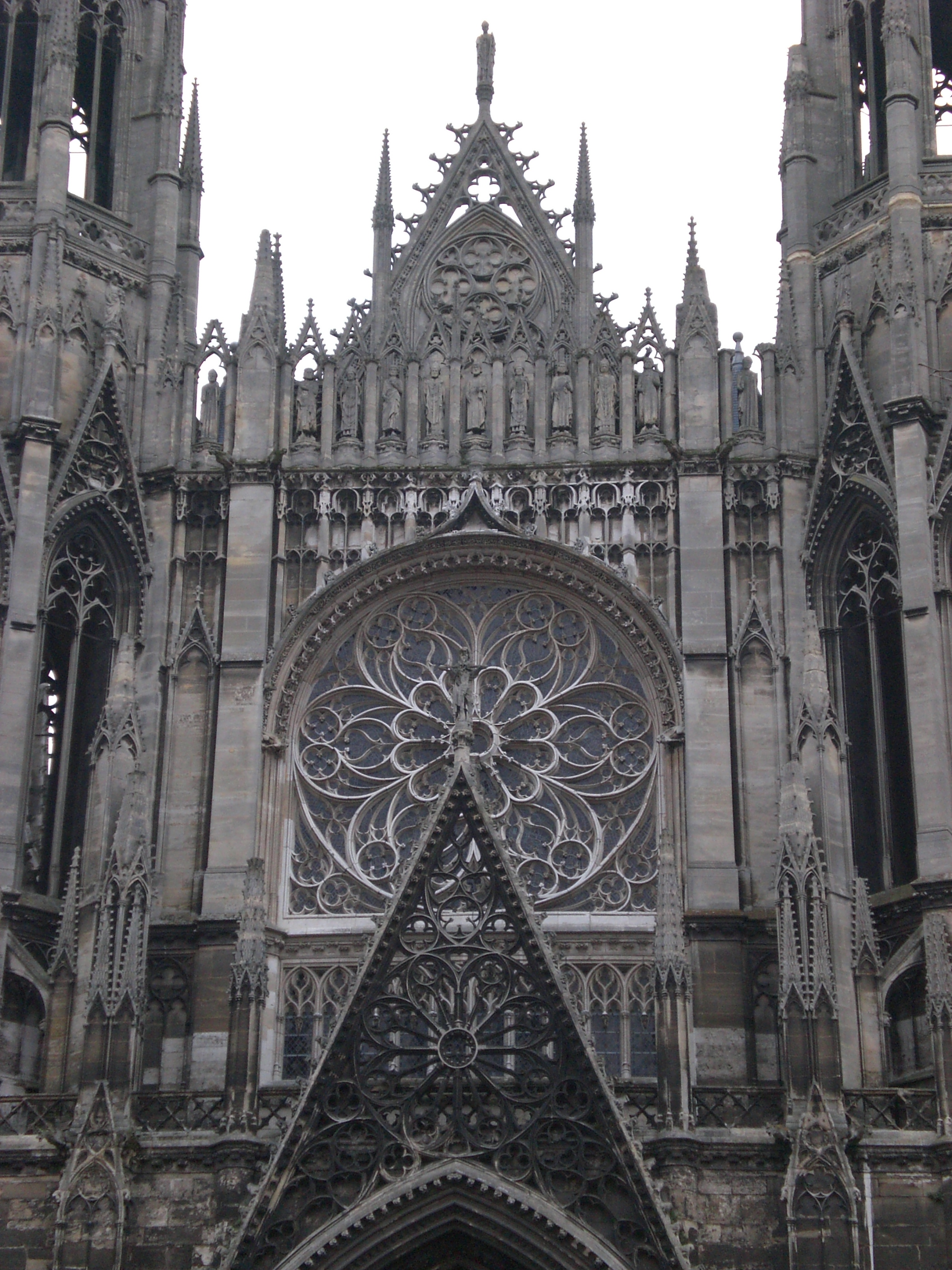 Rouen, St. Ouen's Church, West facade.